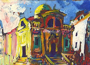 thumb of painting St.Blasius in Dubrovnik